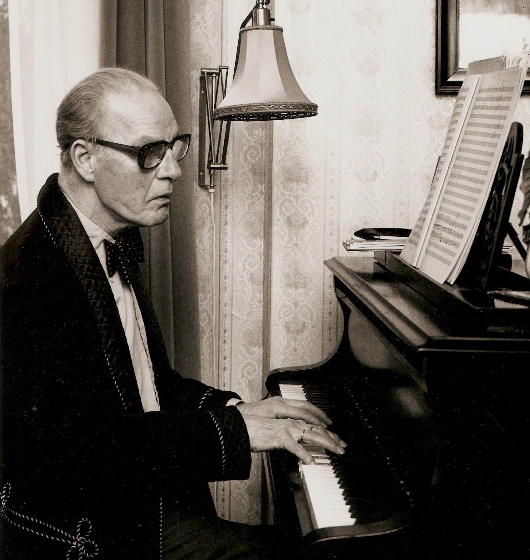 Jan Nordby